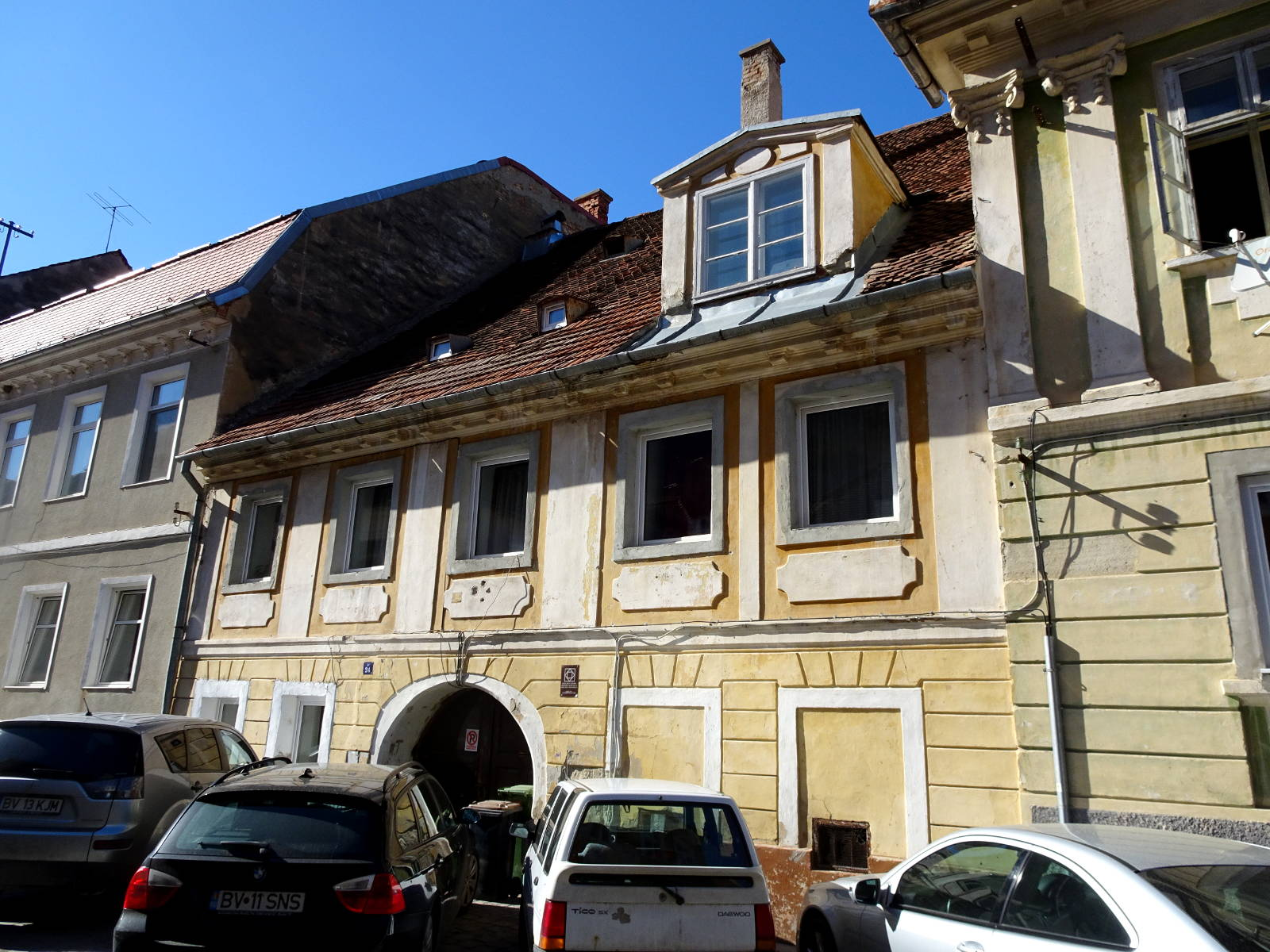 Strada Cerbului in Brasov, house number 24, historic monument